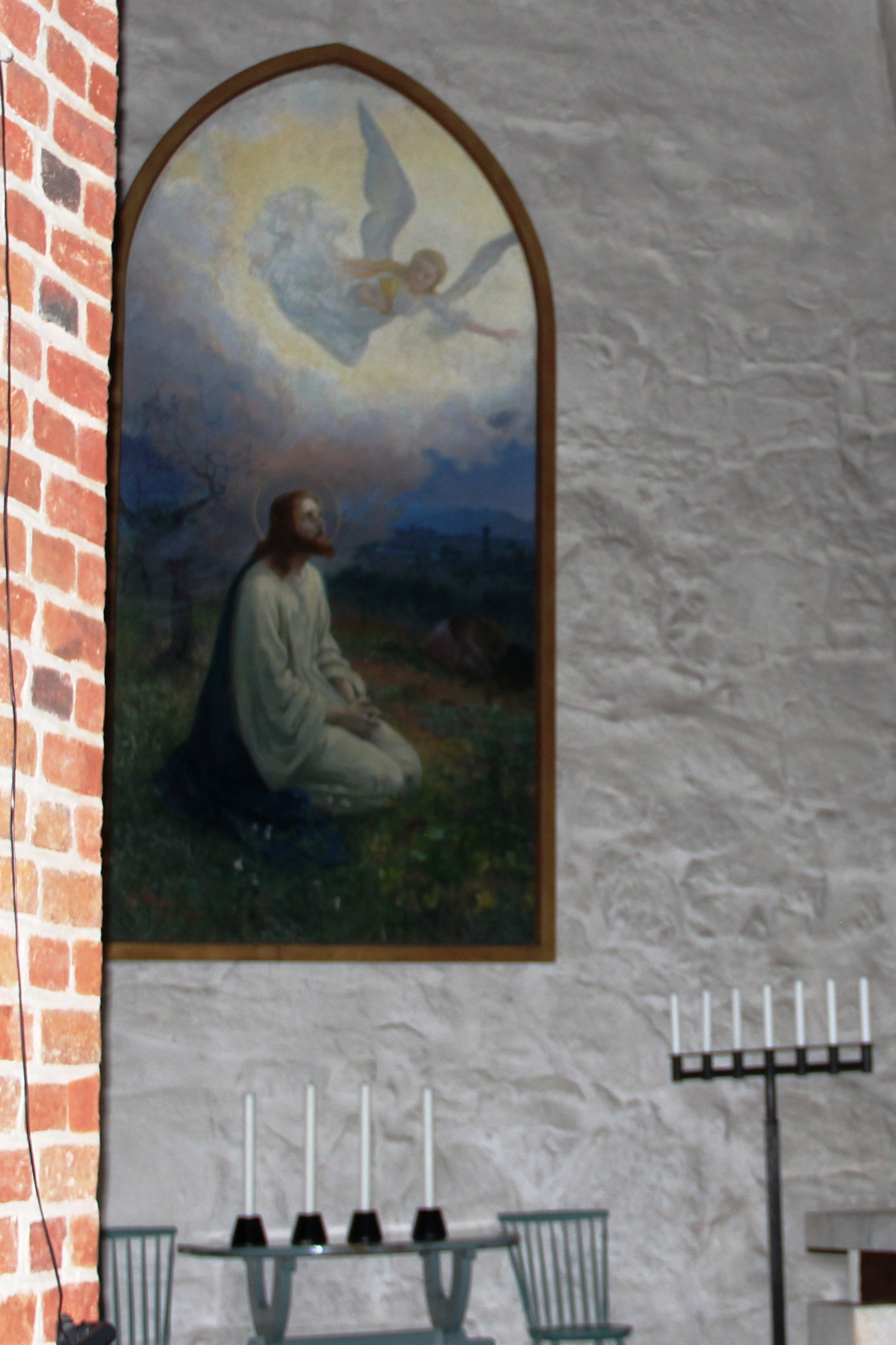 Elin Danielson-Gambodgi, The old altarpiece Christ in Gethsemane in Kimito Church